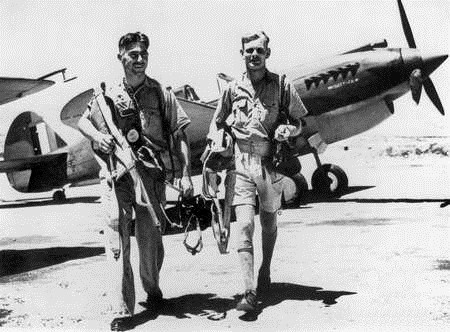 Rosh Pinna, Palestine. C. 1941-06. Flying Officer (FO) P. St G. B. Turnbull (left) and FO J. H. W. Saunders, pilots of No. 3 Squadron RAAF, with one of the Squadron's Curtiss Tomahawk aircraft in the background.